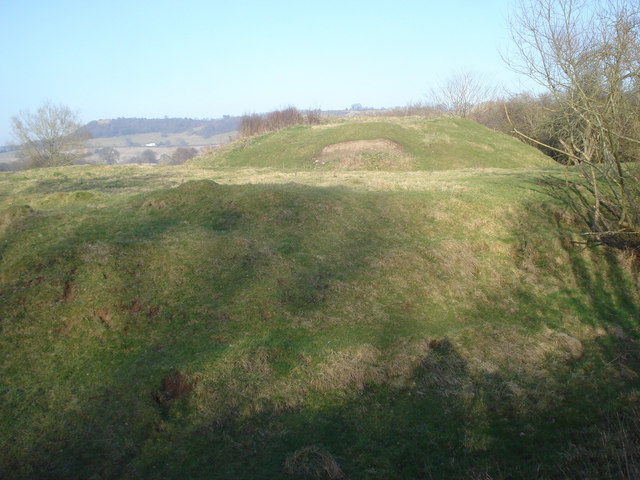 Lingen Castle Not much to see except the motte and some other lower earthworks in a field north of the church.